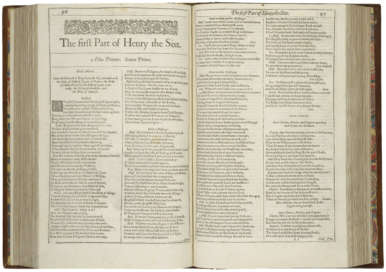 The first page of Shakespeare's Henry the Sixth, Part I, printed in the First Folio of 1623